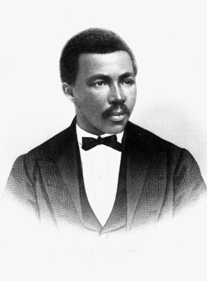 Robert B. Elliott, member of the United States House of Representatives.